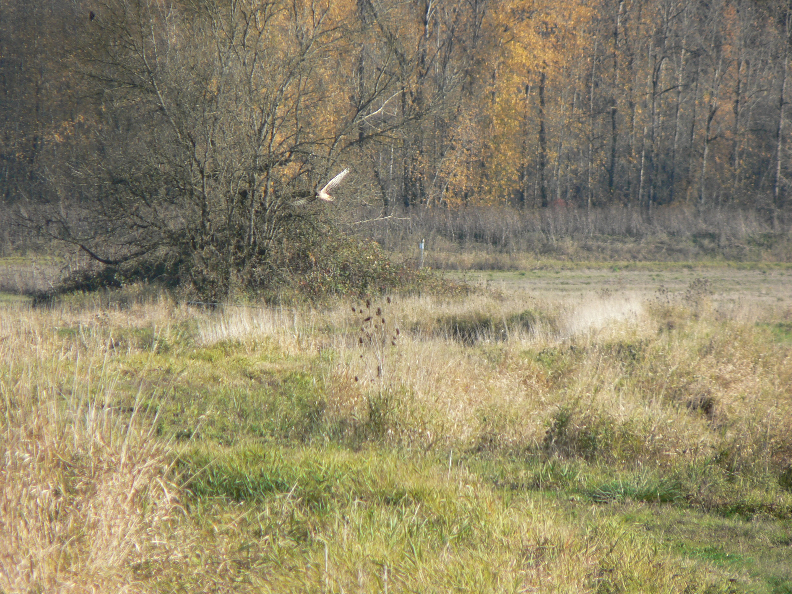 Northern Harrier